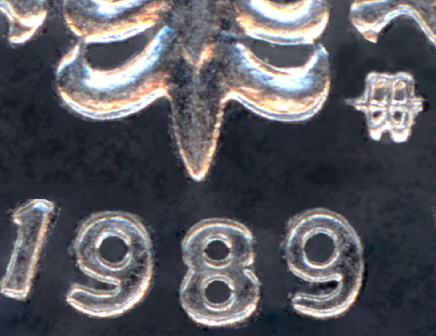 Minting mark (the letter "m" on letter "w ") of the Warsaw Mint